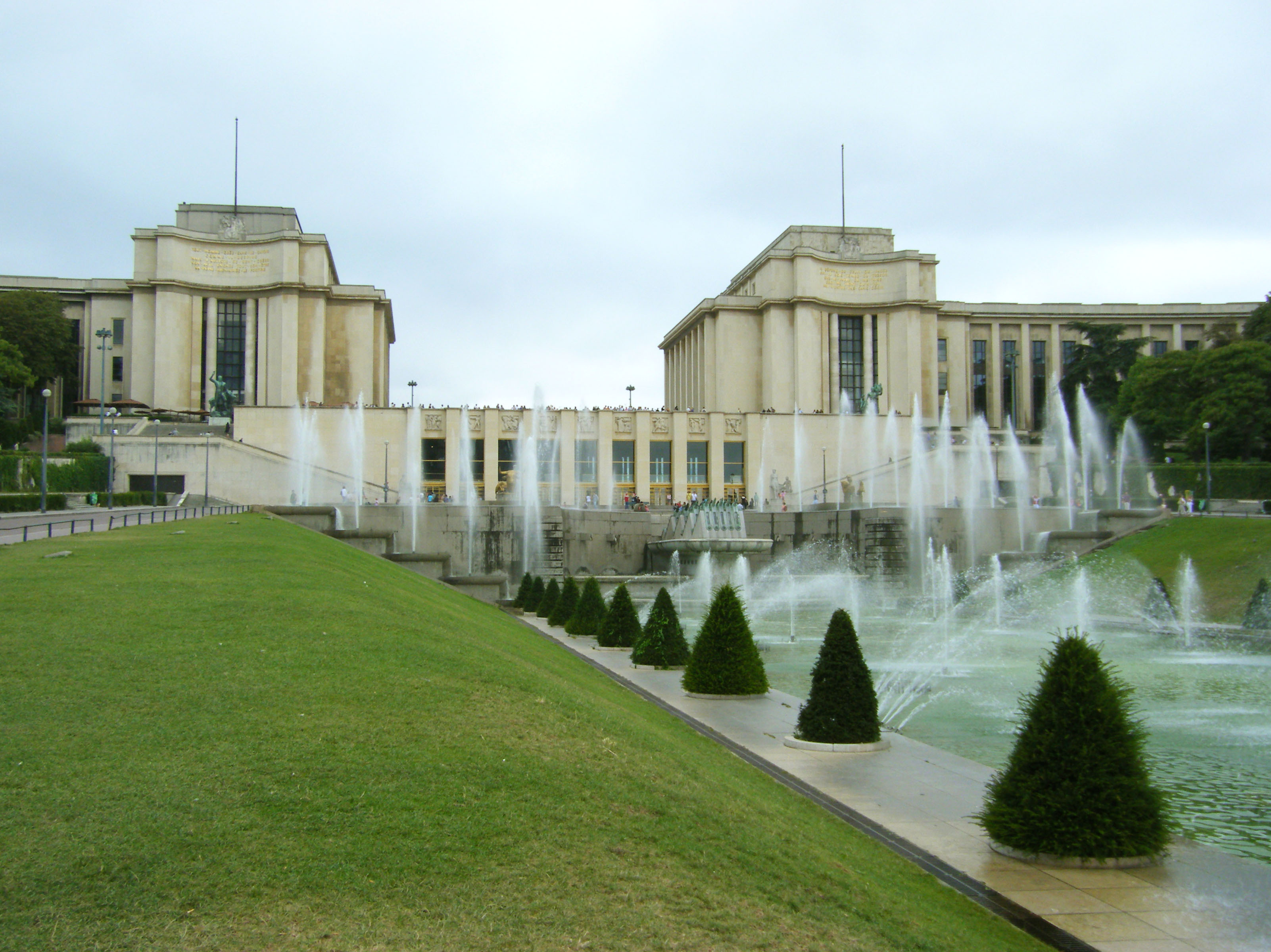 The Trocadero in Paris